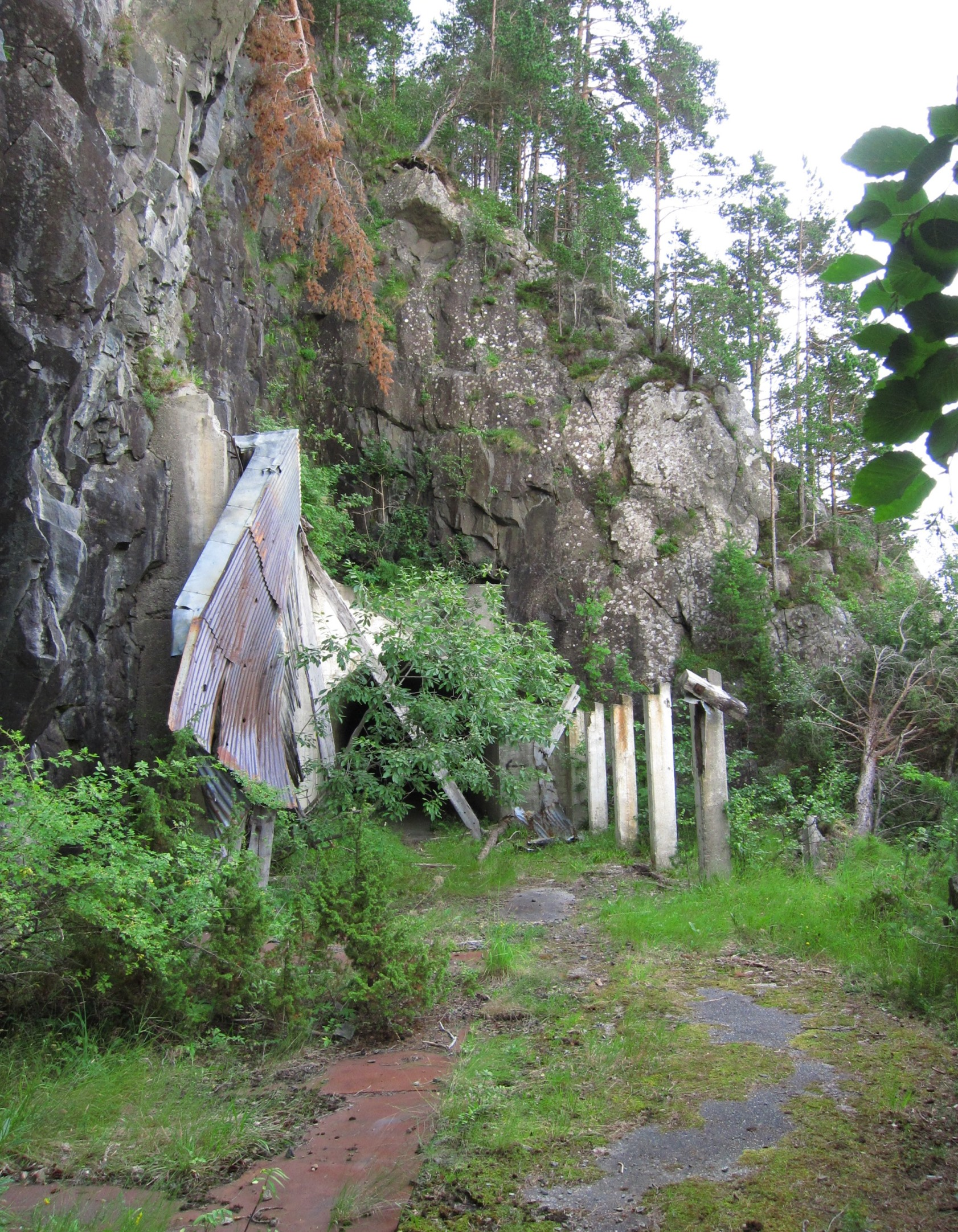 Abandoned road and tunnel at Viset (part of road 650 until 1985), Ørskog, Norway.